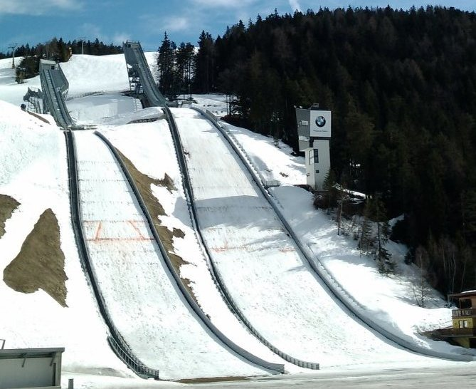 Seefeld, Tirol: ski jumping hill Toni Seelos